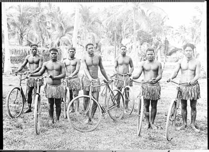 Nauruan cyclists (1916/1917)